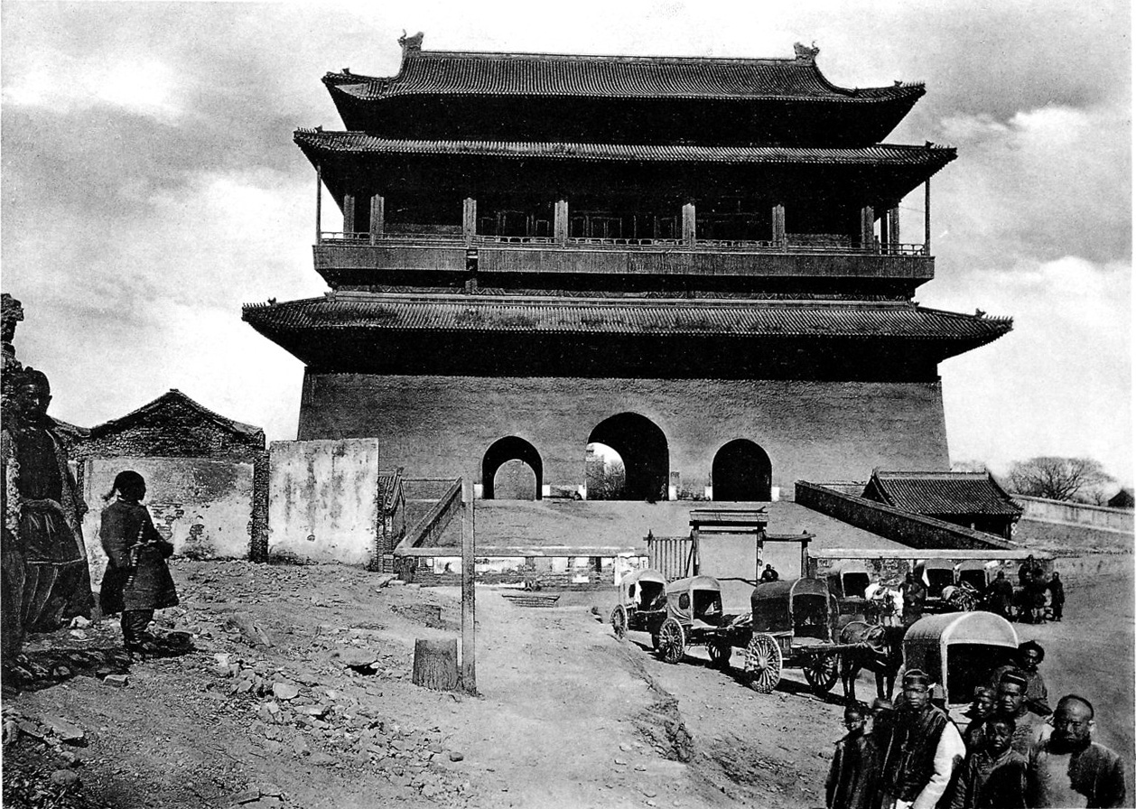 photo from Ein Tagebuch in Bildern